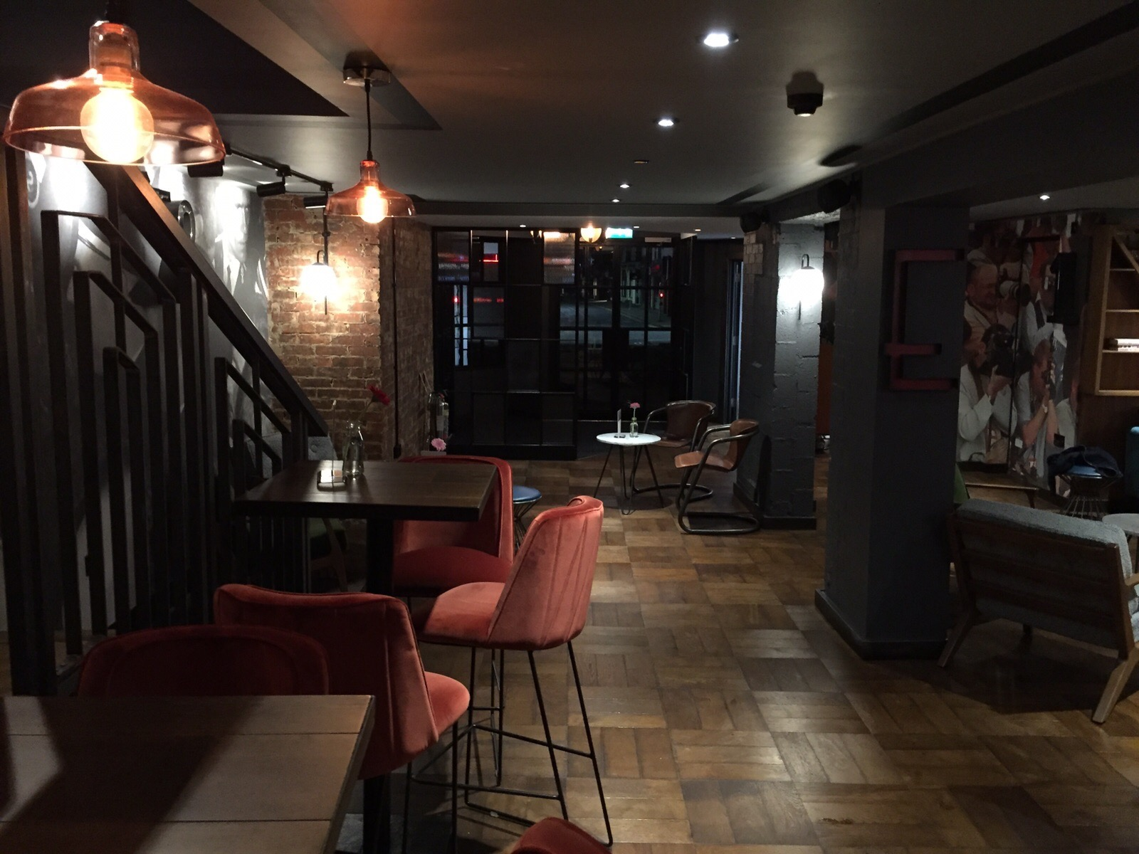 The foyer of the Everyman Cinema, demonstrating the huge changes